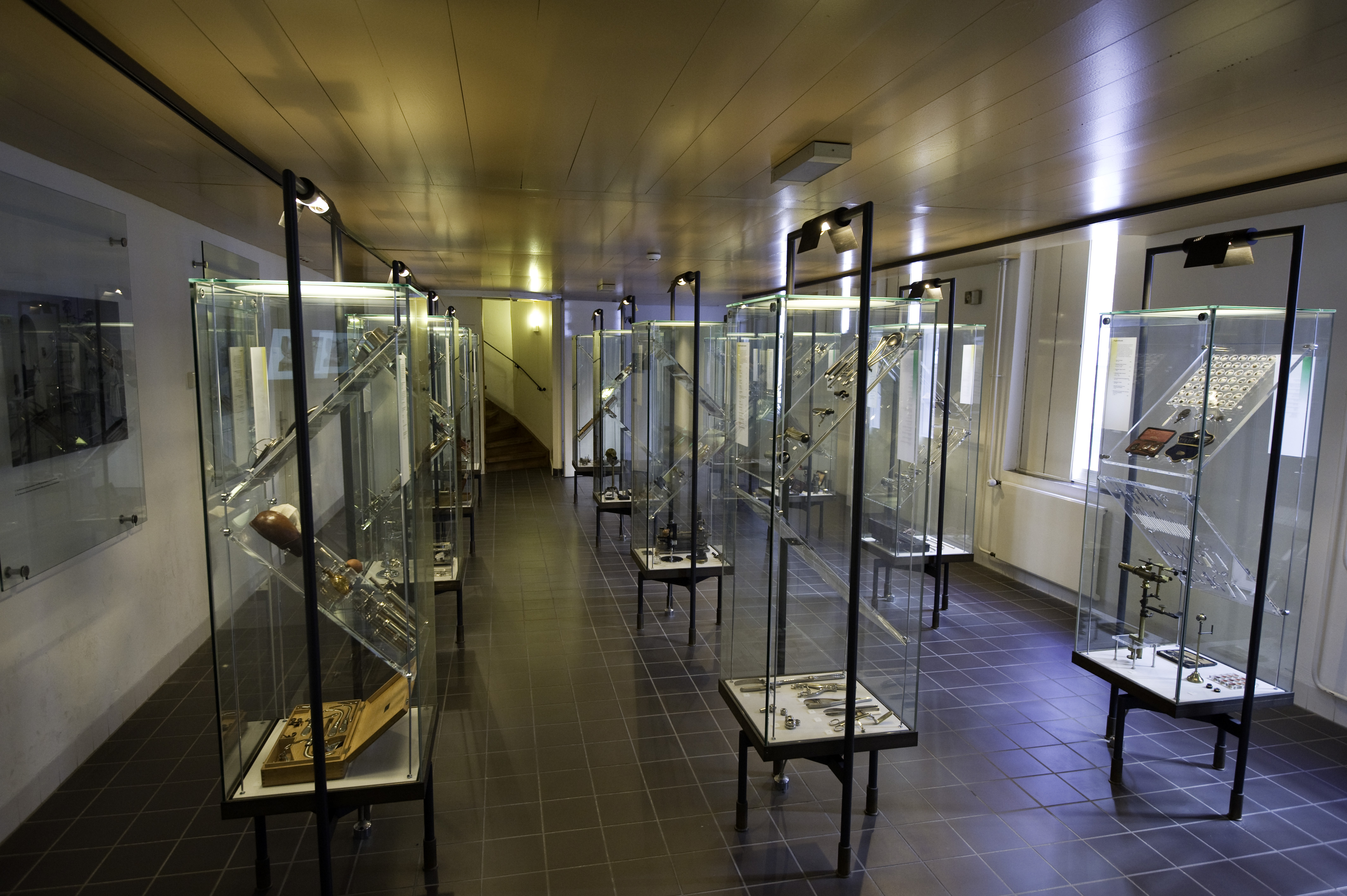 Museum Boerhaave walk-through